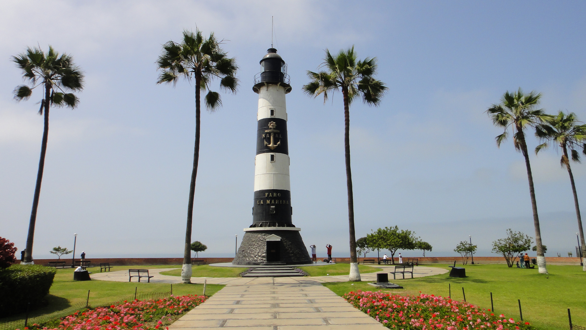 Lighthouse in Lima, Peru.